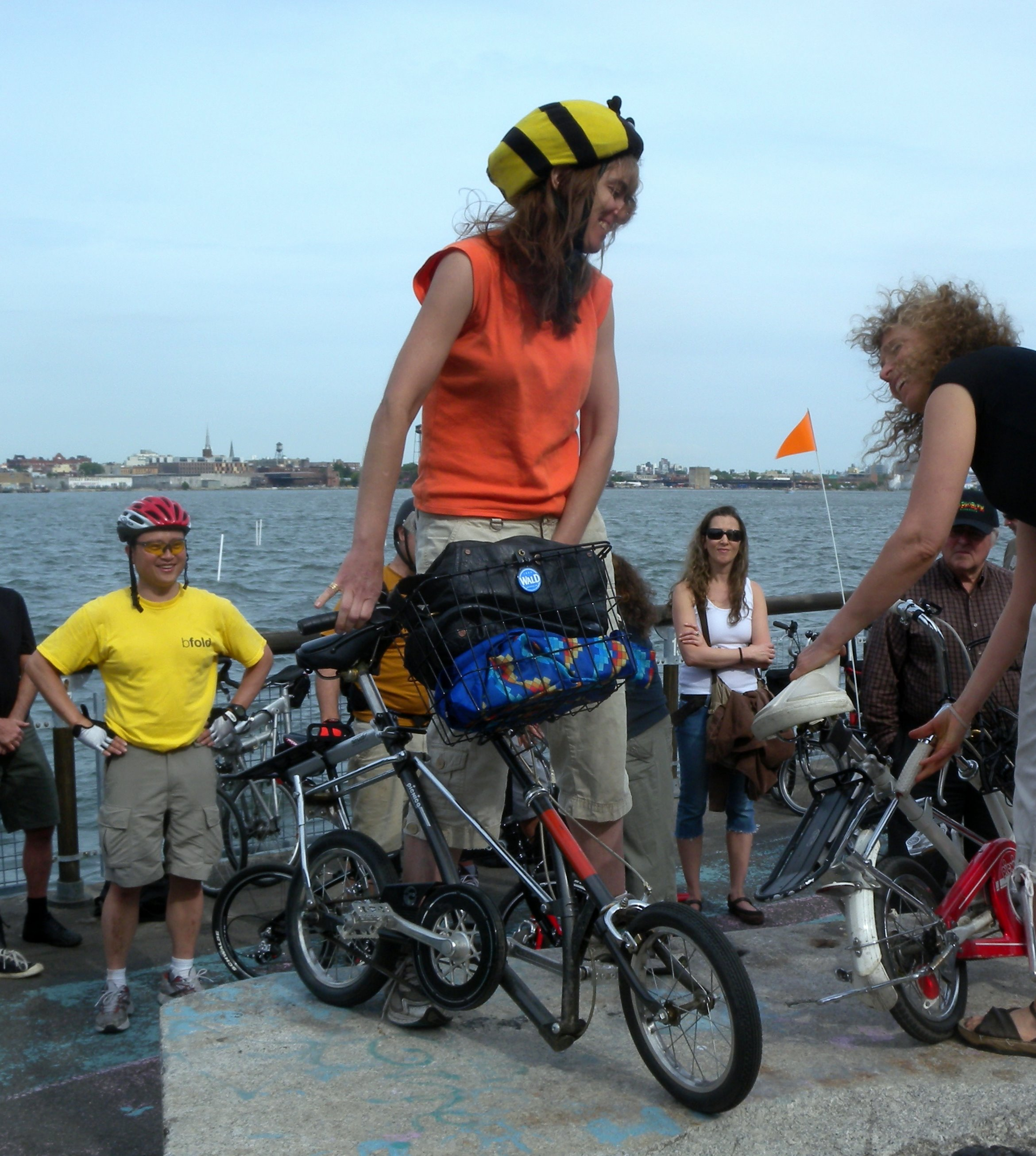 Looking southeast as a Picnica is folded. See also File:Picnica standing SCP jeh.jpg.